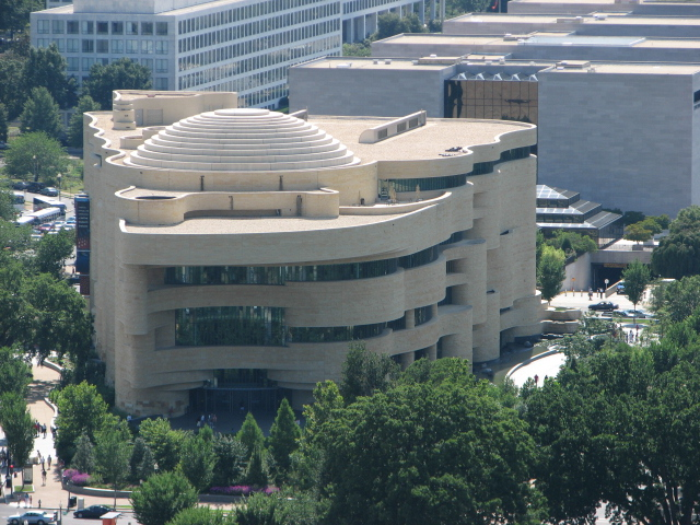 View of the Smithsonian American Indian Museum from the United States Capitol dome, taken July 12th, 2007, by Rebel At.